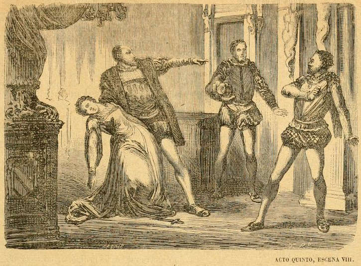 Last scene in Lessing's play "Emilia Galotti".